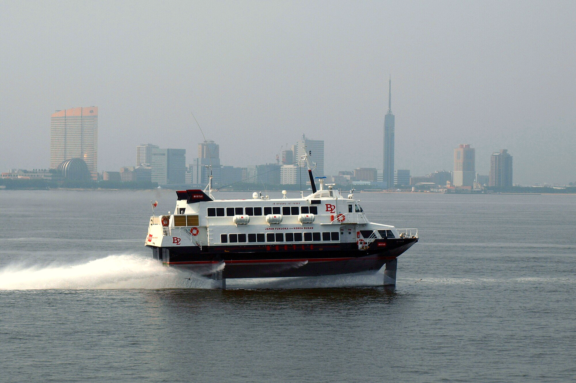 Beetle2 on the Hakata Bay. Shot from a ferry.